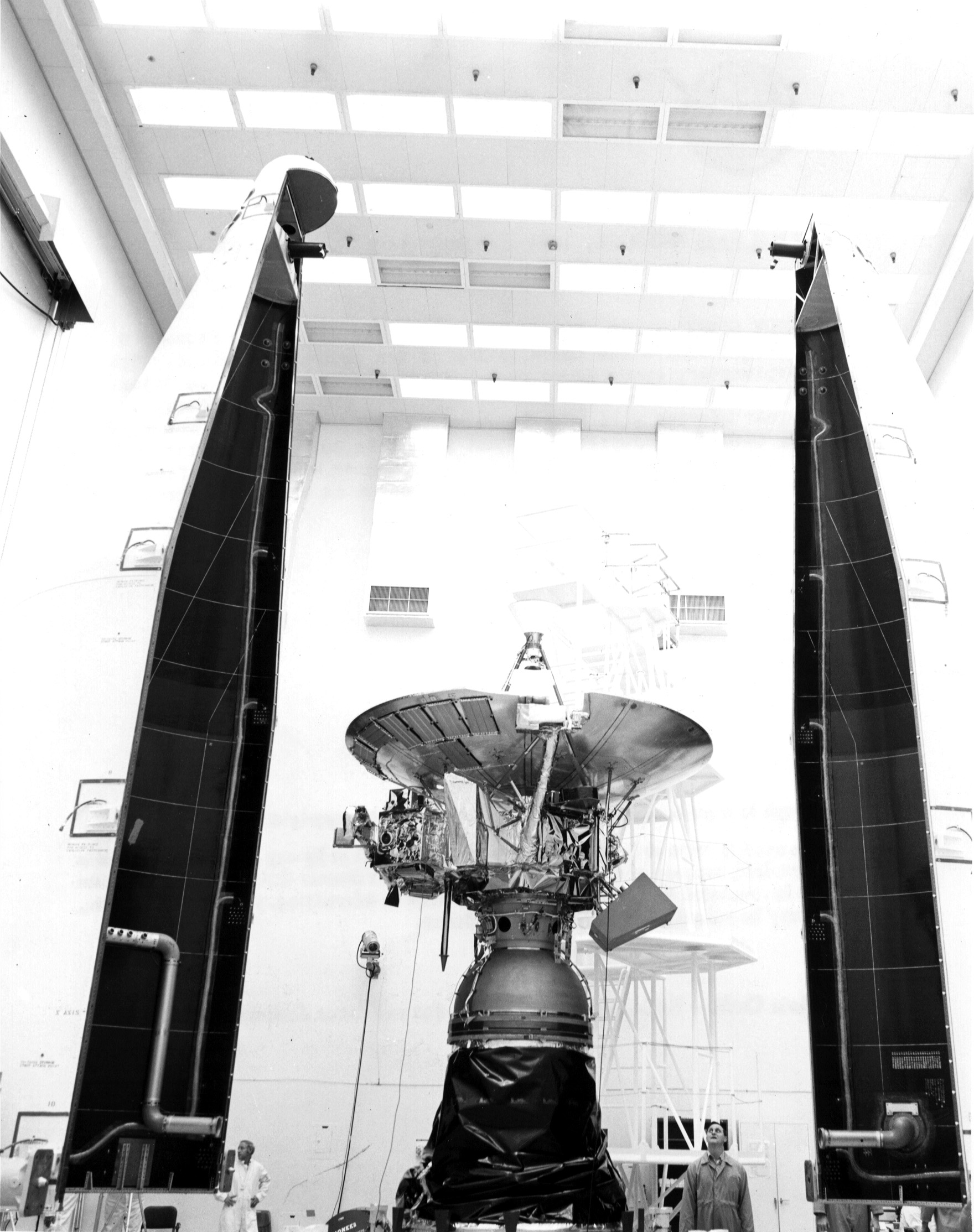 Ready for its wraps, the Pioneer G spacecraft awaits the installation of its protective shroud. The interplanetary space probe is scheduled for launch atop an Atlas Centaur rocket from Cape Kennedy April 5. Pioneer G's nearly two-year mission will take it on a investigation of the asteroid belt, then on to Jupiter, largest planet in our solar system. NASA's launch teams from Kennedy Space Center will handle final testing and the launch itself. The mission is under the direction and control of Ames Research Center.